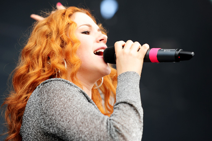 Katy B performing at the Parklife Festival at Wellington Square, Perth, Australia in September 2011